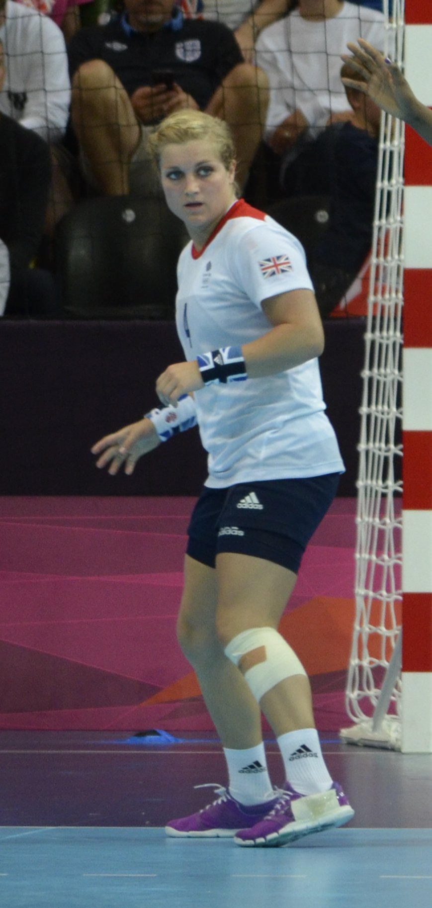 Zoe van der Weel from the UK team at the 2012 Summer Olympics women handball tournament